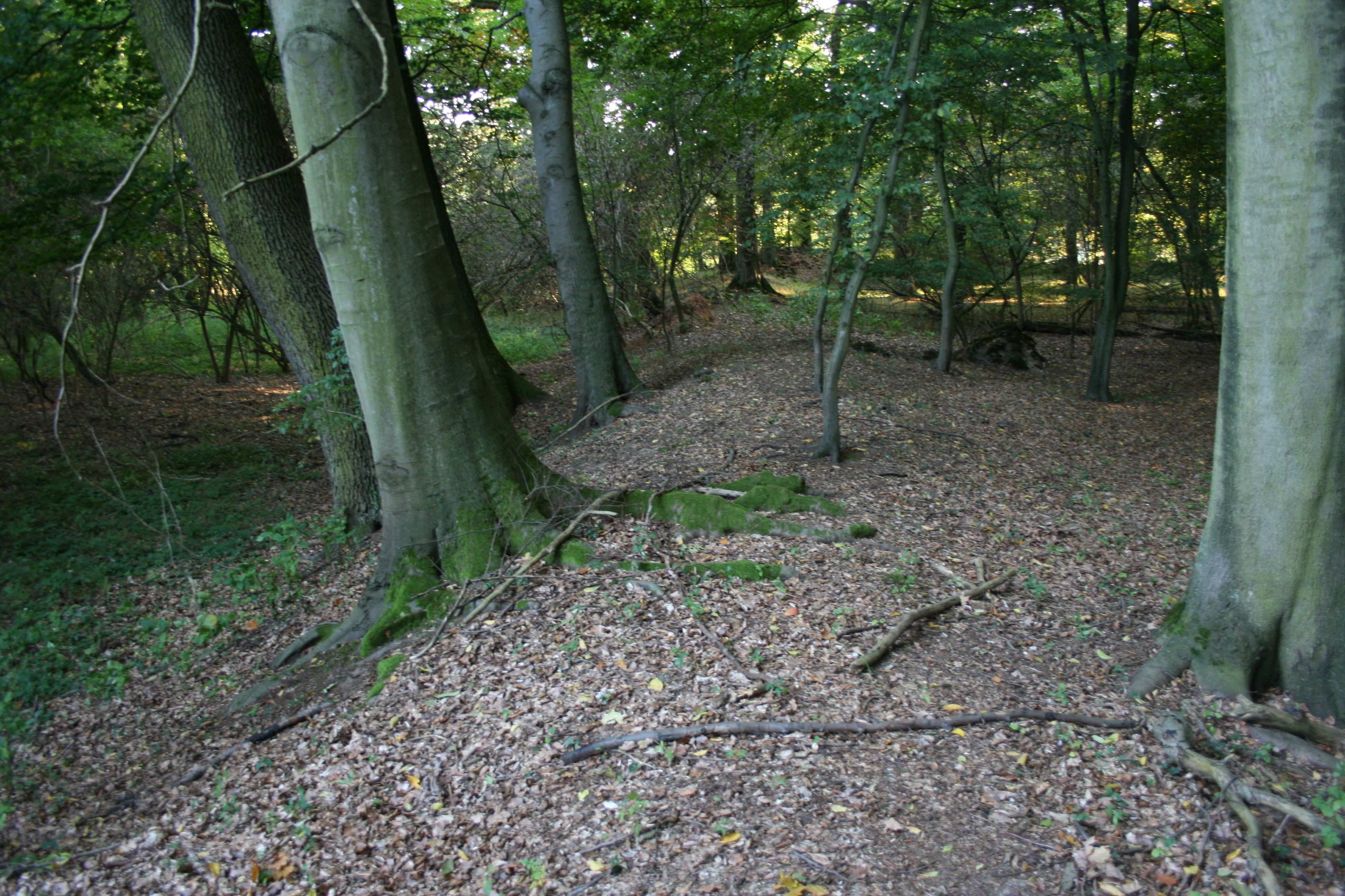 Castle Altenburg, Hanau-Mittelbuchen, Hesse.